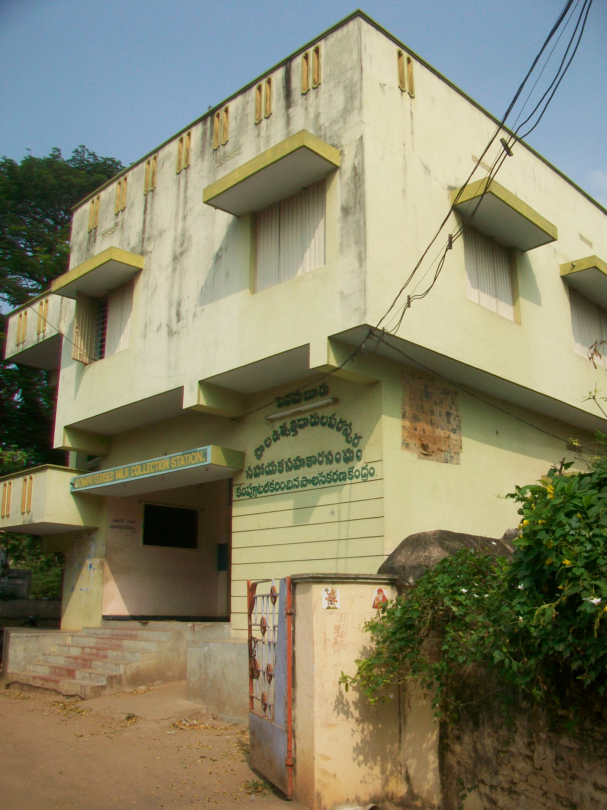 Penamaluru Paala Kendhram